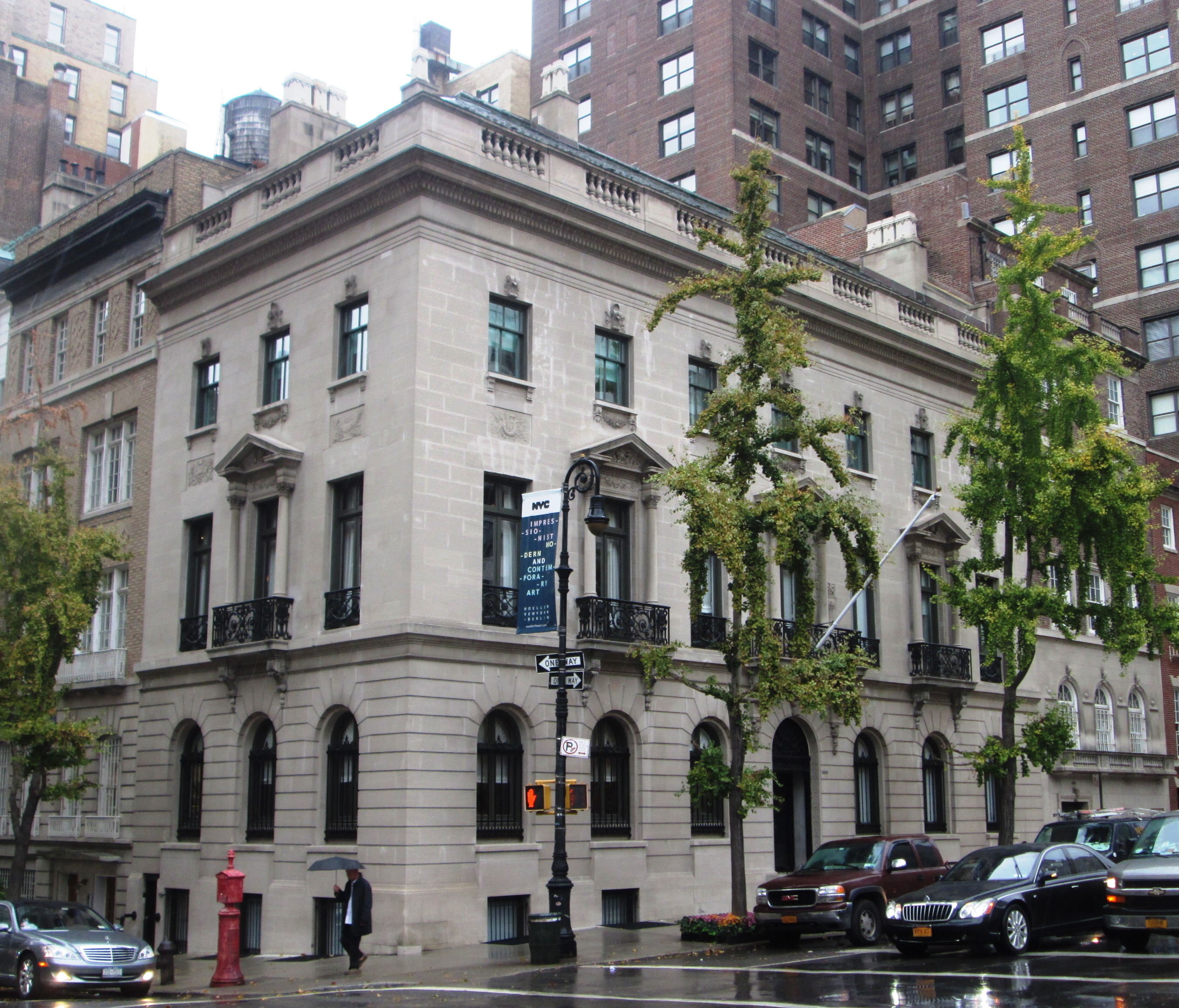 The Jonathan Buckley House at 600 Park Avenue at the corner of East 64th Street in the Lenox Hill neighborhood of Manhattan, New York City was built in 1911 and was designed by James Gamble Rogers as a residence in the English Renaissance Revival style. The building, which is now the Swedish Consulate to the United Nations, was restored by Rothzeid Kaiserman Thomson & Bree. It is located in the Upper East Side Historic District. (Source: AIA Guide to NYC (5th ed.))